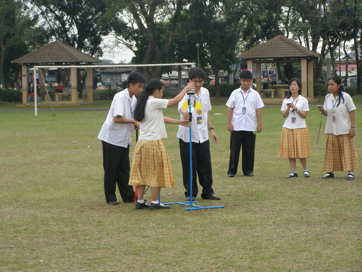 A science school student who tests a water rocket launch